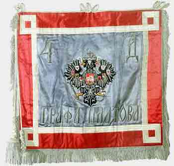 Standard of the 1st Don Cossack Regiment